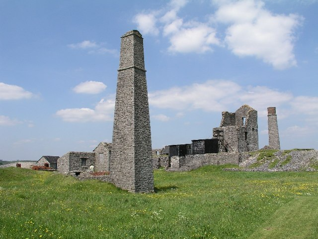 Magpie Mine, near Sheldon. The surface remains at Magpie Mine are the best example in Britain of an 18th and 19th century lead mine. It is a scheduled ancient monument.